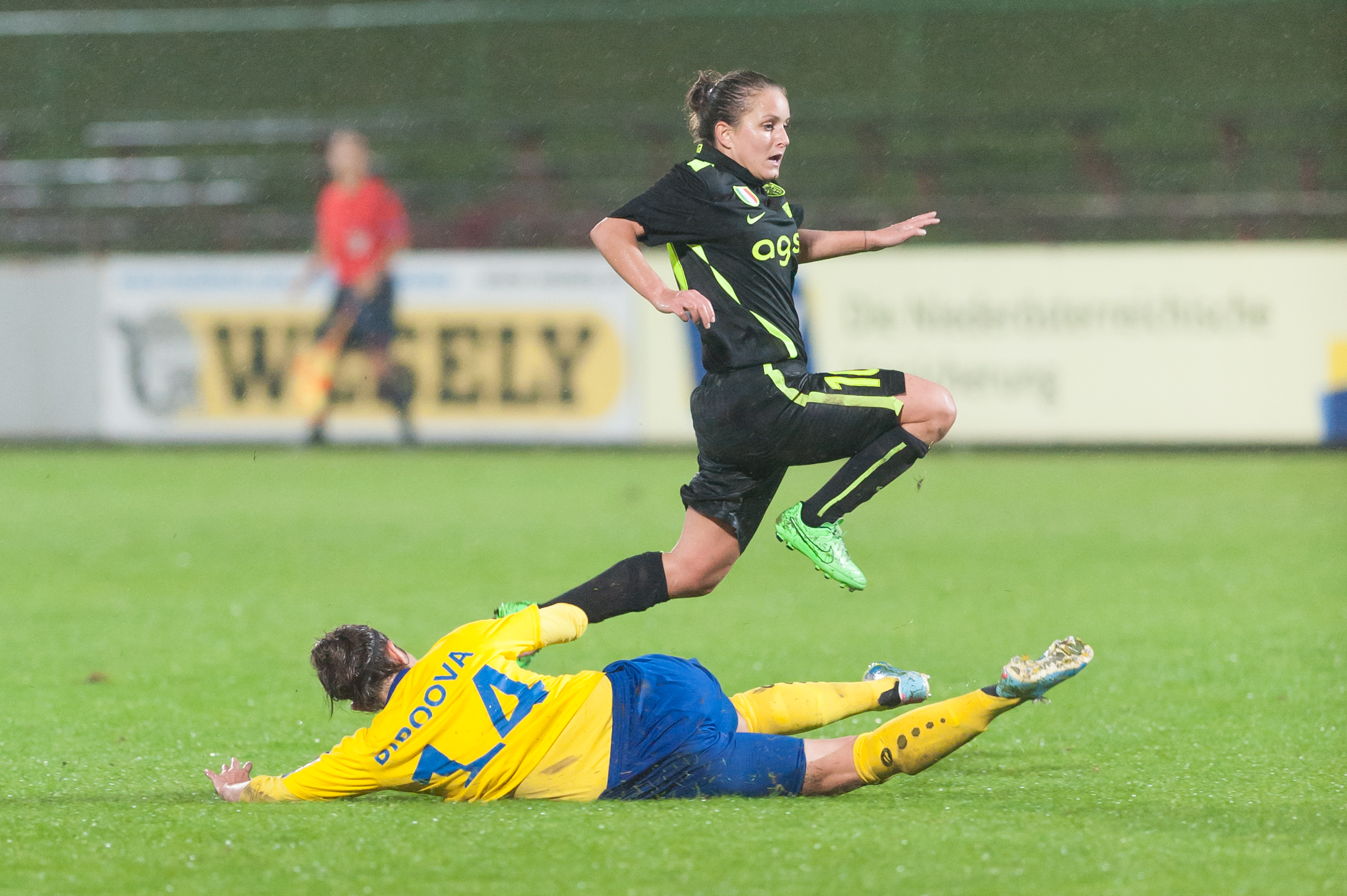 UEFA Women's Champions League FSK St. Pölten-Spratzern vs ASF CF Verona, St. Pölten, 2015-10-07